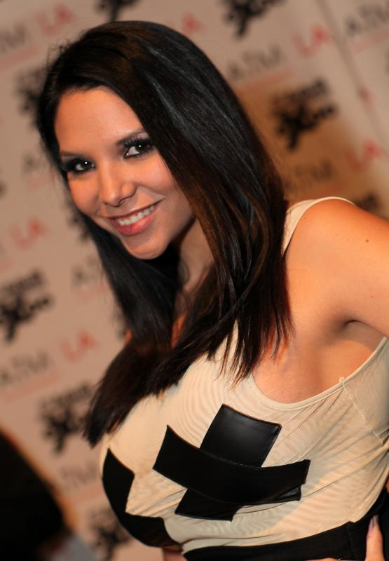 Missy Martinez at AEE Expo.